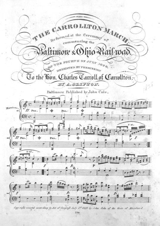 Sheet music for the first known train song, which was copyrighted July 1, 1828, and was written to commemorate the groundbreaking of the Baltimore & Ohio Railroad three days later. The piece is named for Charles Carroll of Carrollton, Maryland, the last surviving signer of the Declaration of Independence, who laid the "first stone" for railroad's construction.